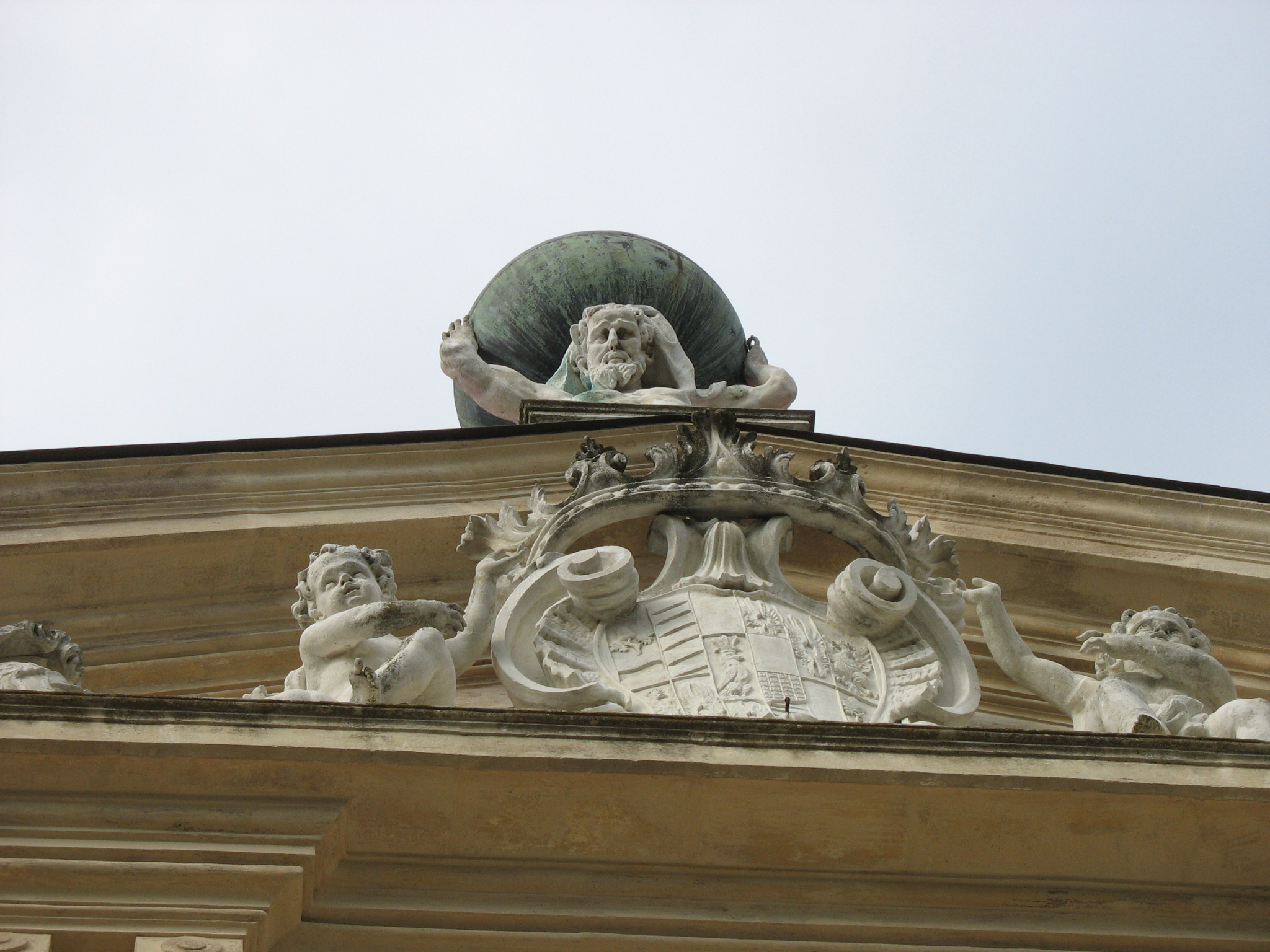 Riegersburg, Lower Austria. Arms of the Counts of Khevenhüller.